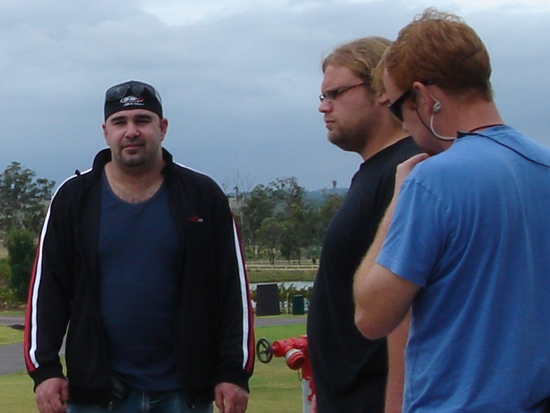 Vinnie DiMartin and Mikey Teutul from American Chopper / Orange County Choppers. They are in the middle of filming in the Hunter Valley, Australia.